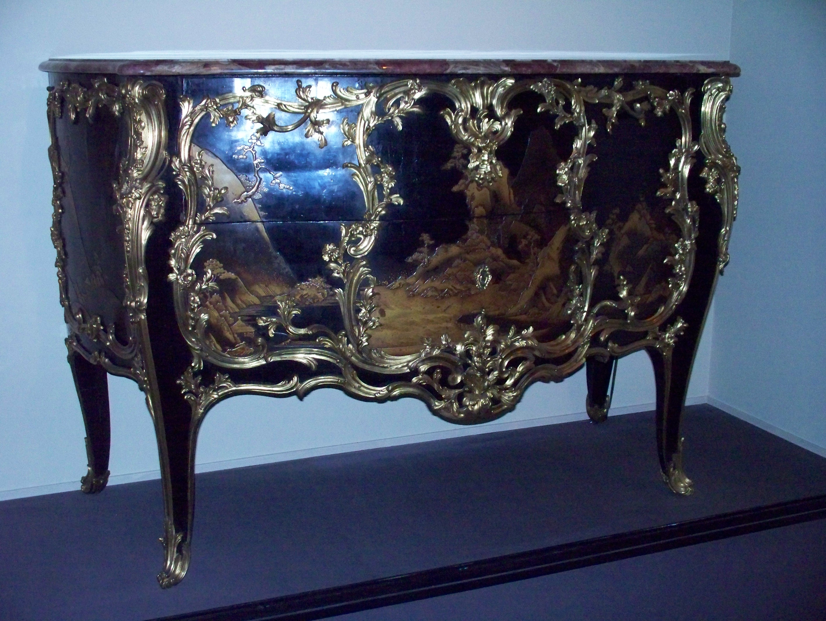 Commode Carcase of oak mounted with panels of Japanese lacquer & painted in black imitation lacquer; gilt bronze mounts, marble slab top stamped Joseph for Joseph Baumhauer (d.1772); made by Darnault; French (Paris); 1760 - 65. Commode; carcase of oak mounted with panels of Japanese lacquer & painted in black imitation lacquer; gilt bronze mounts, marble slab top, with gilt bronze rococo decoration, and a scene in lacquer of a Japanese village with trees and mountains. Wikipedia Loves Art at the Victoria and Albert Museum This photo of item # 1013-1882 at the Victoria and Albert Museum was contributed under the team name "Opal_Art_Seekers_4" as part of the Wikipedia Loves Art project in February 2009. Victoria and Albert Museum The original photograph on Flickr was taken by Forever Wiser—please add a comment to the original Flickr page whenever a use has been made on Wikipedia or another project. Project galleries on Flickr: this institution, this team